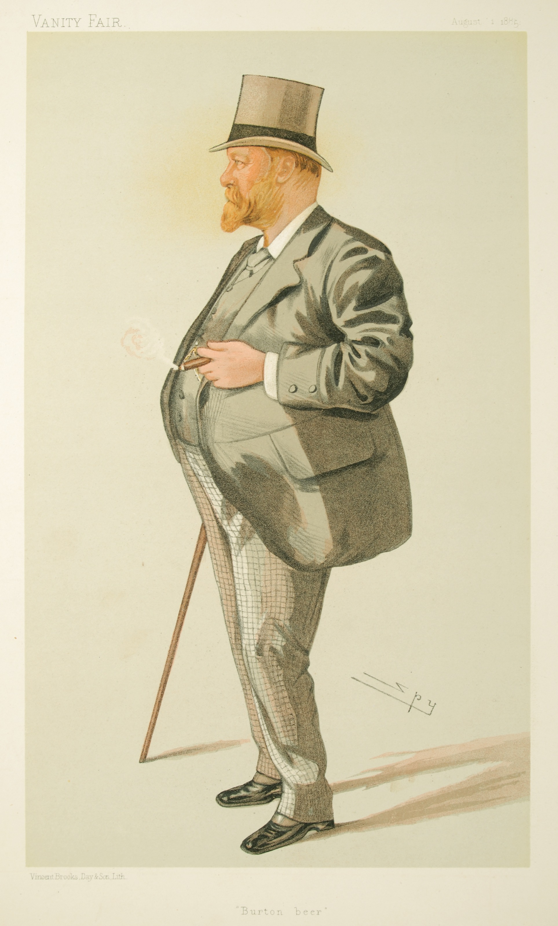 Statesmen No.470: Caricature of Mr Samuel Charles Allsopp MP. Caption reads: "Burton Beer"